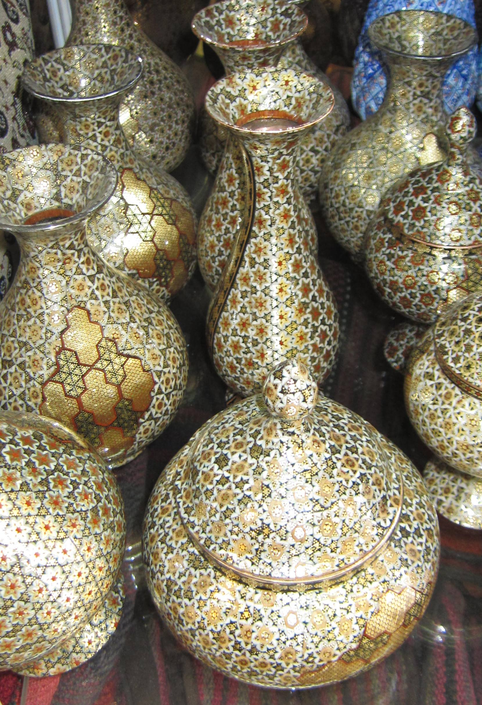 Khatam Kari of Iran